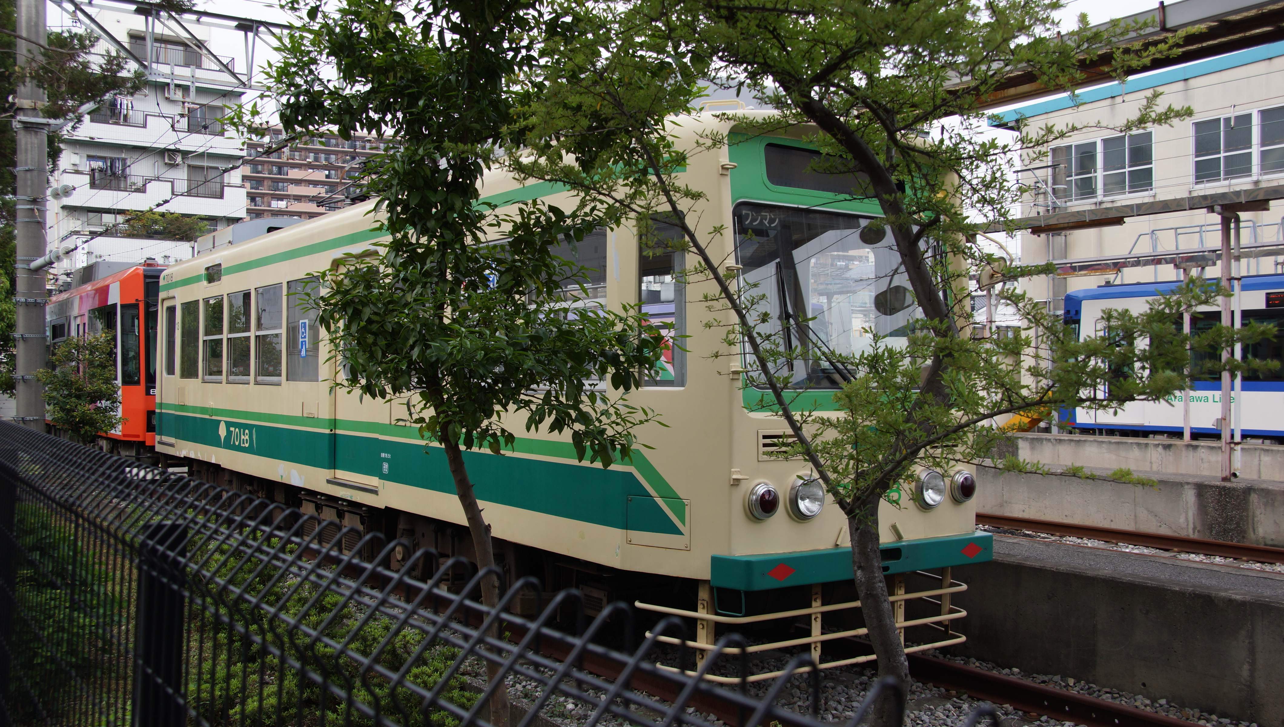 Toei 7000 series tramcar 7018 stored out of service at Arakawa Depot in Tokyo